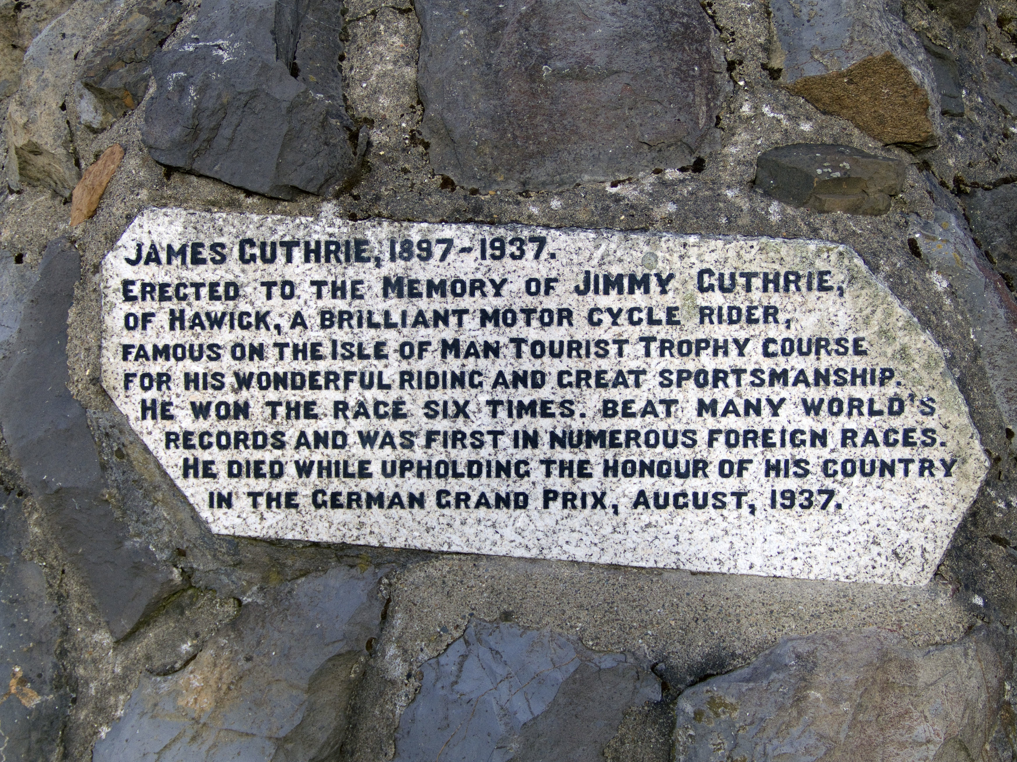 Memorial to the motorcyclist Jimmy Guthrie.